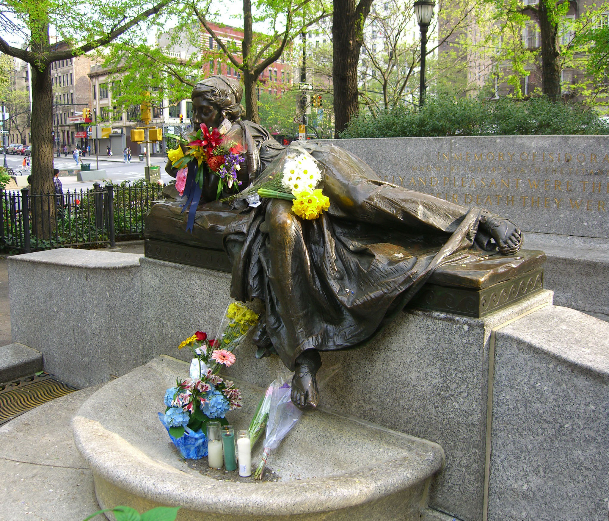 Flowers and candles adorn the bronze statue in Straus Park, at the intersection of West 106th Street and Broadway on Manhattan's Upper West Side, on April 15, 2012, the 100th anniversary of the sinking of the RMS Titanic. The statue, which was created in 1913 by Augustus Lukeman, is of a nymph gazing over an expanse of water, in memory of Isidor Straus, a United States congressman and co-owner of Macy’s, who perished on the Titanic with his wife, Ida, who refused to be separated from him by taking refuge in a lifeboat. This photo was created by Luigi Novi. It is not in the public domain, and use of this file outside of the licensing terms is a copyright violation.